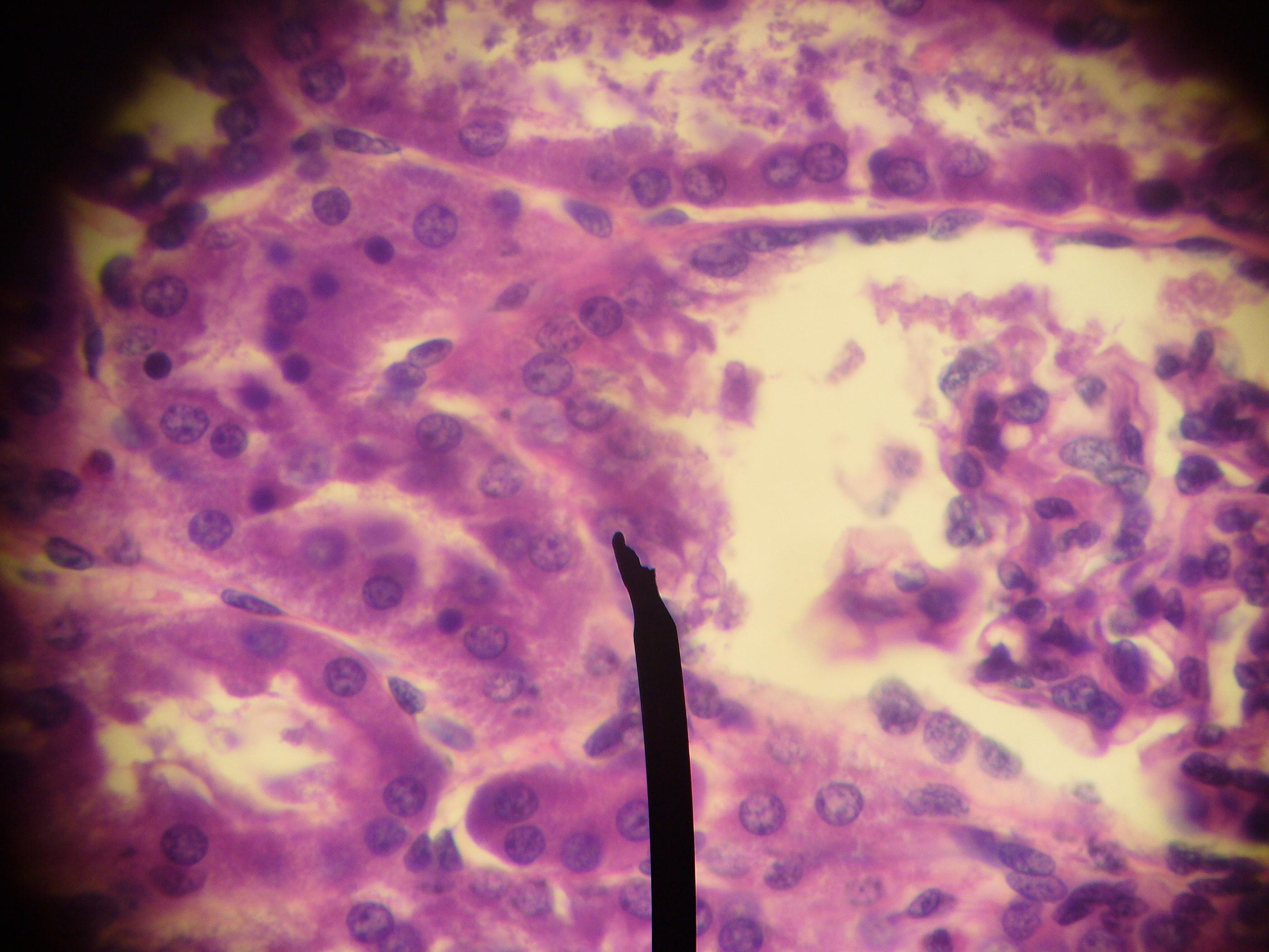 Human JG cells. Digital camera shot through a microscope.